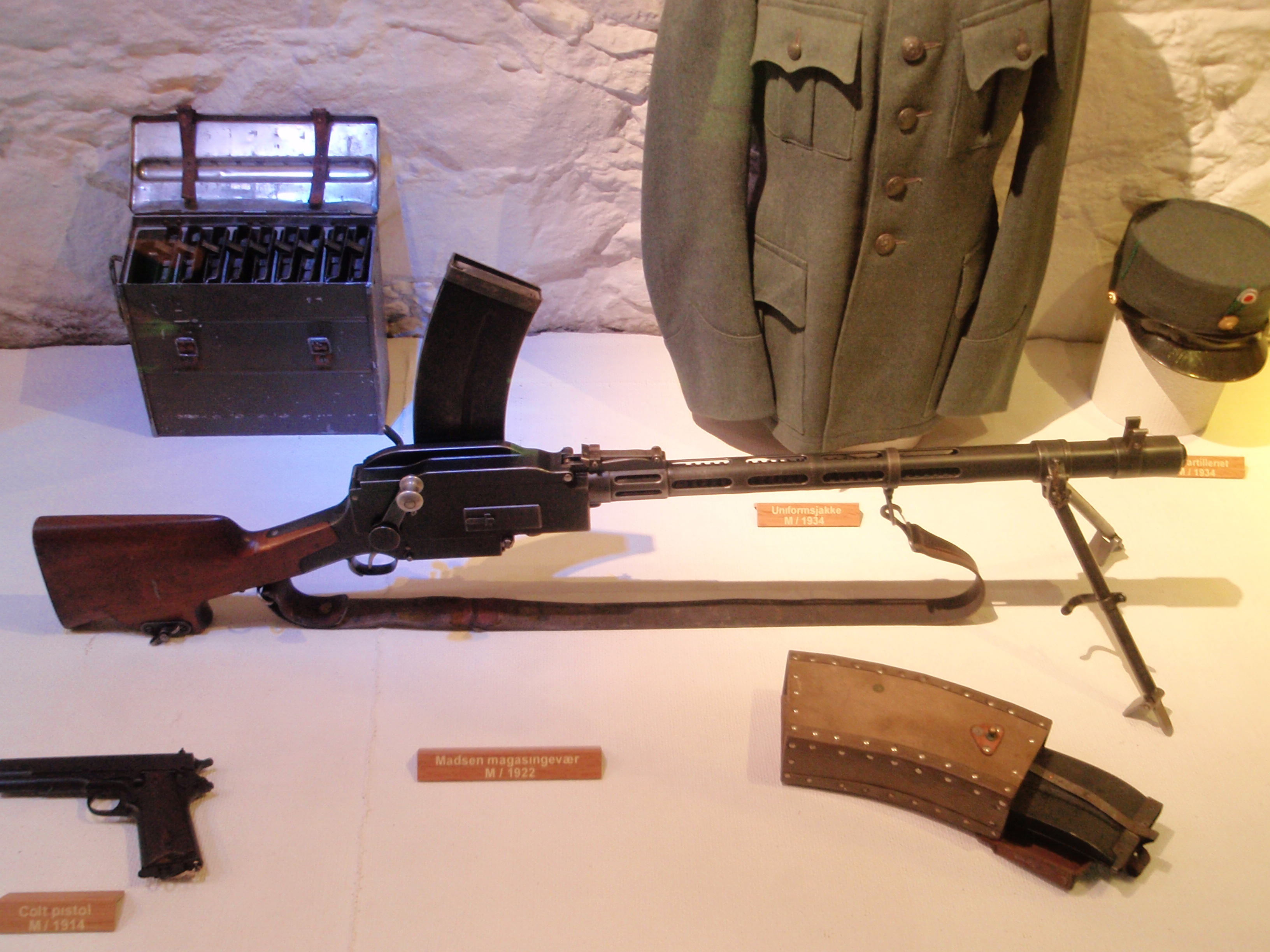 Madsen machine gun with spare magazine on display at the armoury museum in the Archbishop's Palace in Trondheim, Norway.